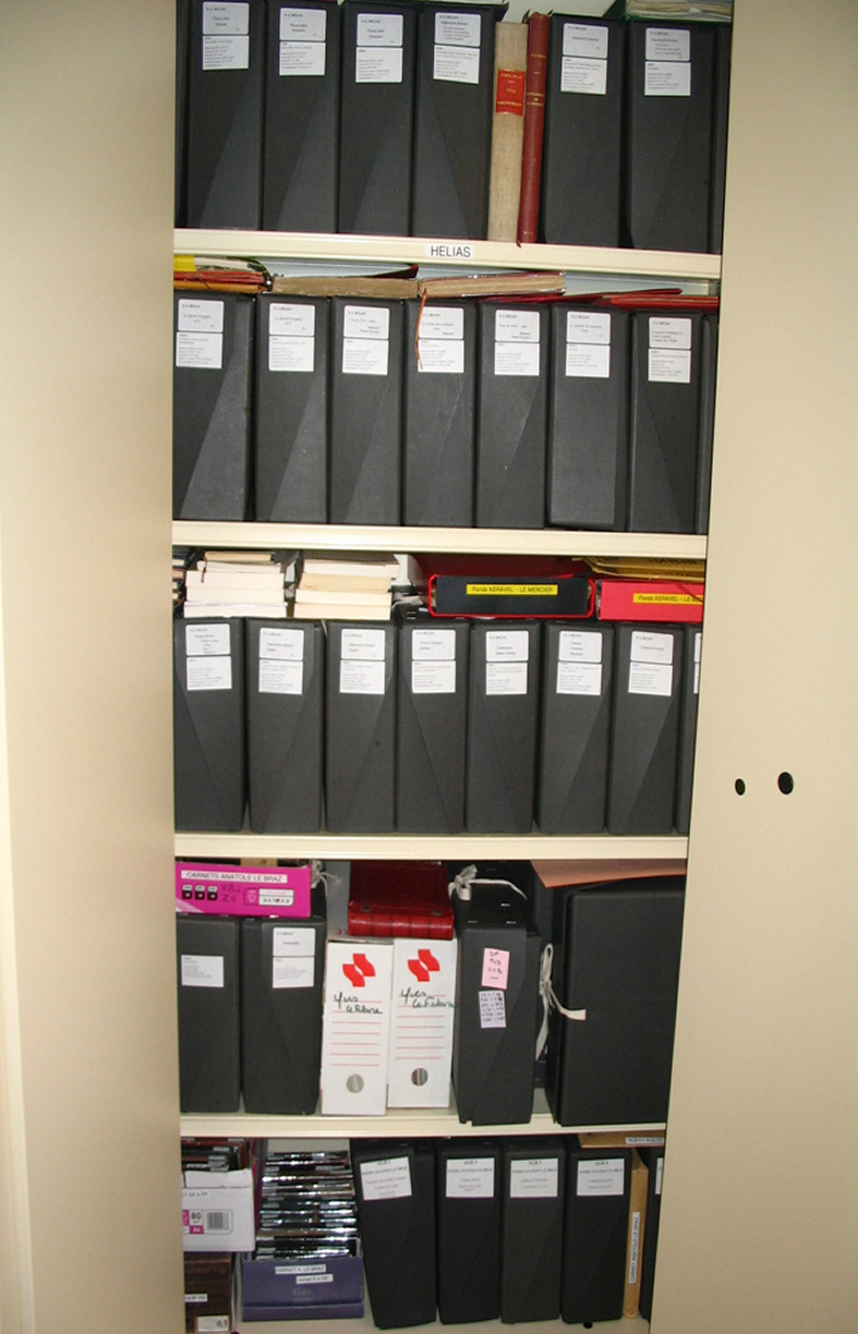 Archives du fonds Per Jakez Helias